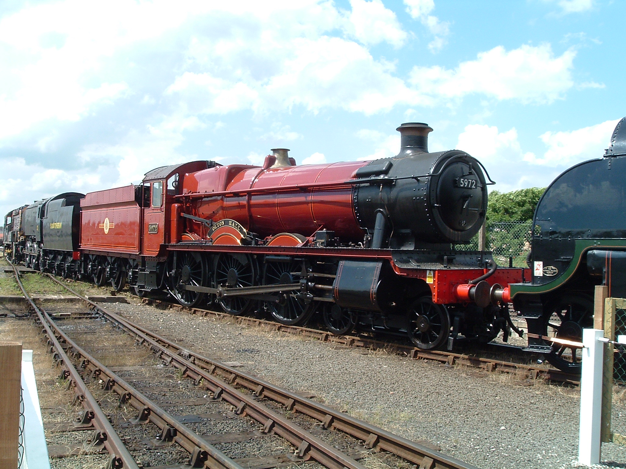 The Hogwarts Express engine, 5972 'Olton Hall', visits the museum in 2004. No. 5972 at the National Railway Museum, York.